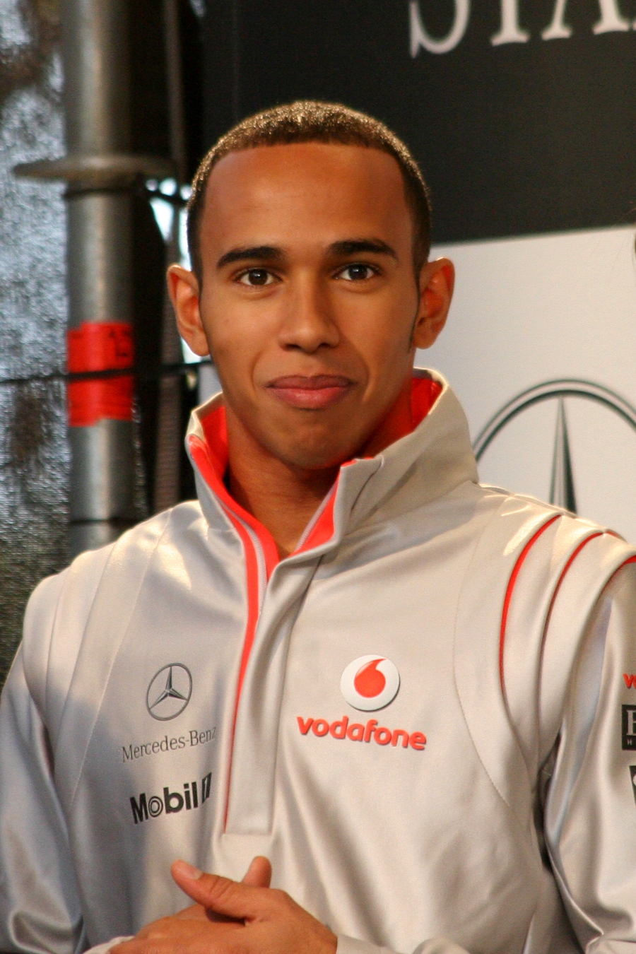 Lewis Hamilton at Stars and Cars 2007.